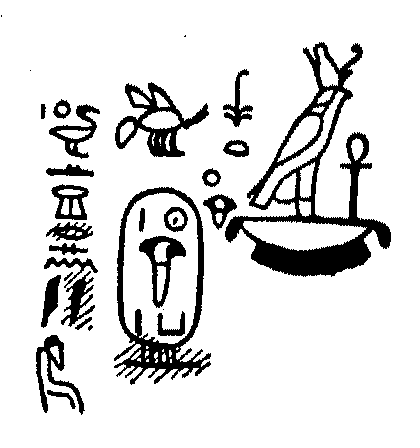 Drawing of an inscription of the Nubian ruler Segerseni, from Nubia, end 11th-beginning 12th Dynasty.